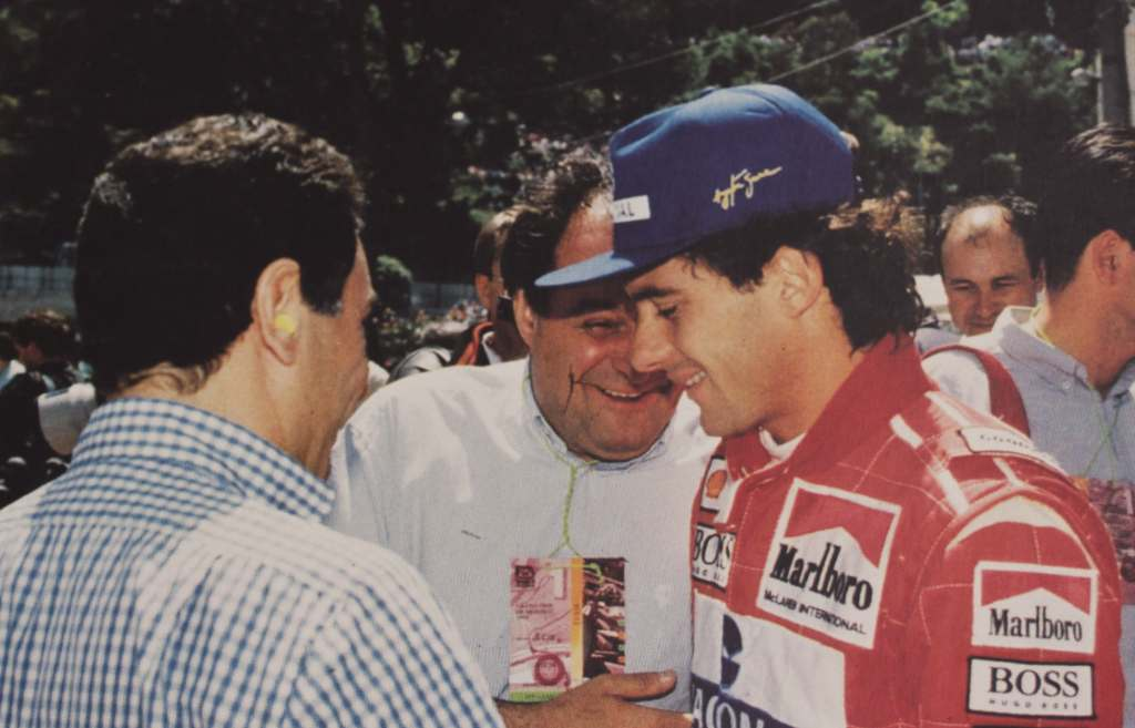 Tullio abbate and Ayrton Senna during Monaco F1 Grand Prix